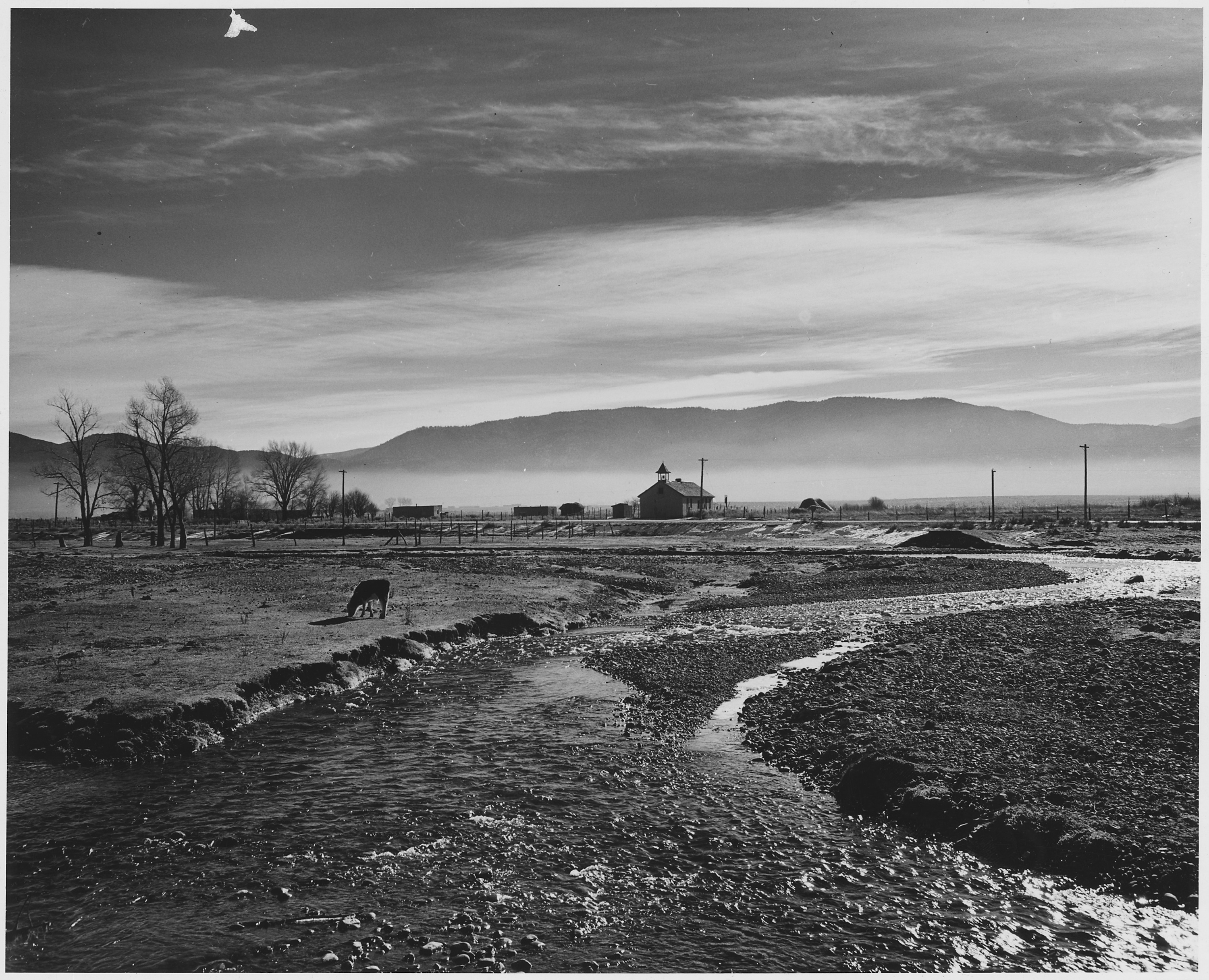 Scope and content: Full caption reads as follows: Taos County, New Mexico. The Rio Pueblo de Taos - mist in Taos Valley in the a.m.